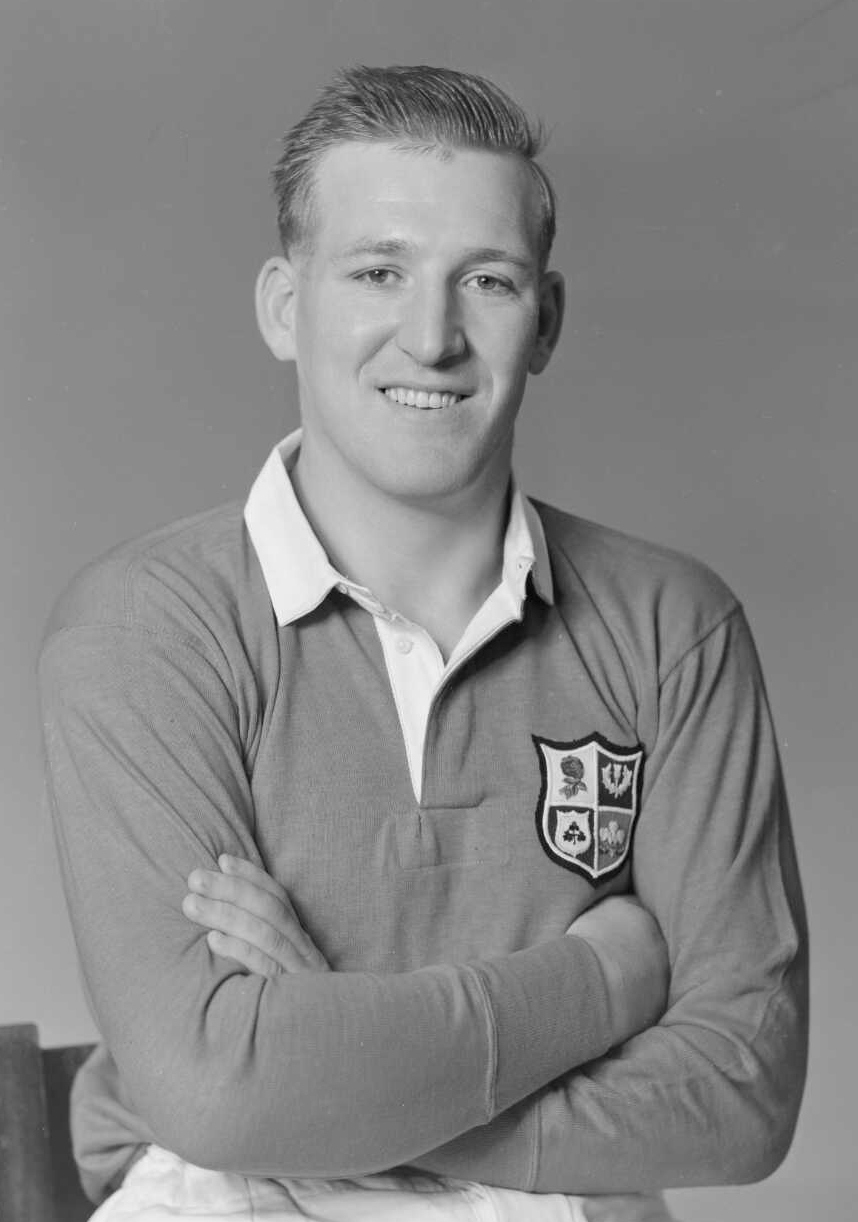 D J Hayward, member of the British Lions rugby union team